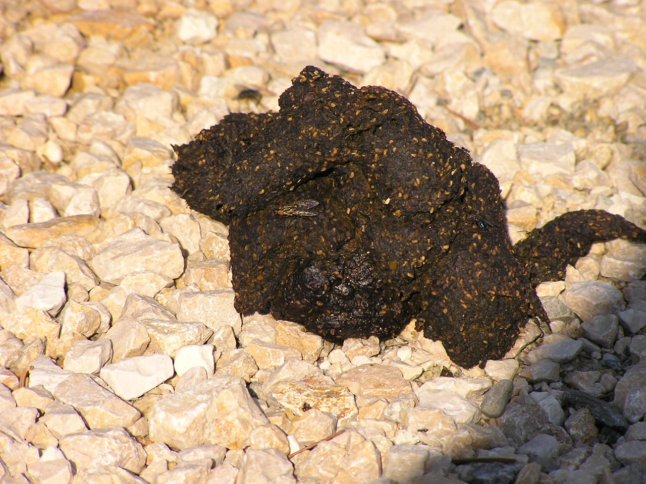 Faeces from bear